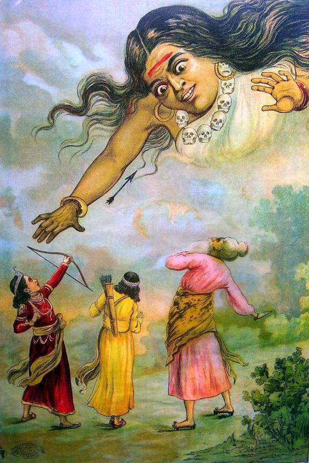 "Taraka vadh," a print by the Ravi Varma Press, c.1910's